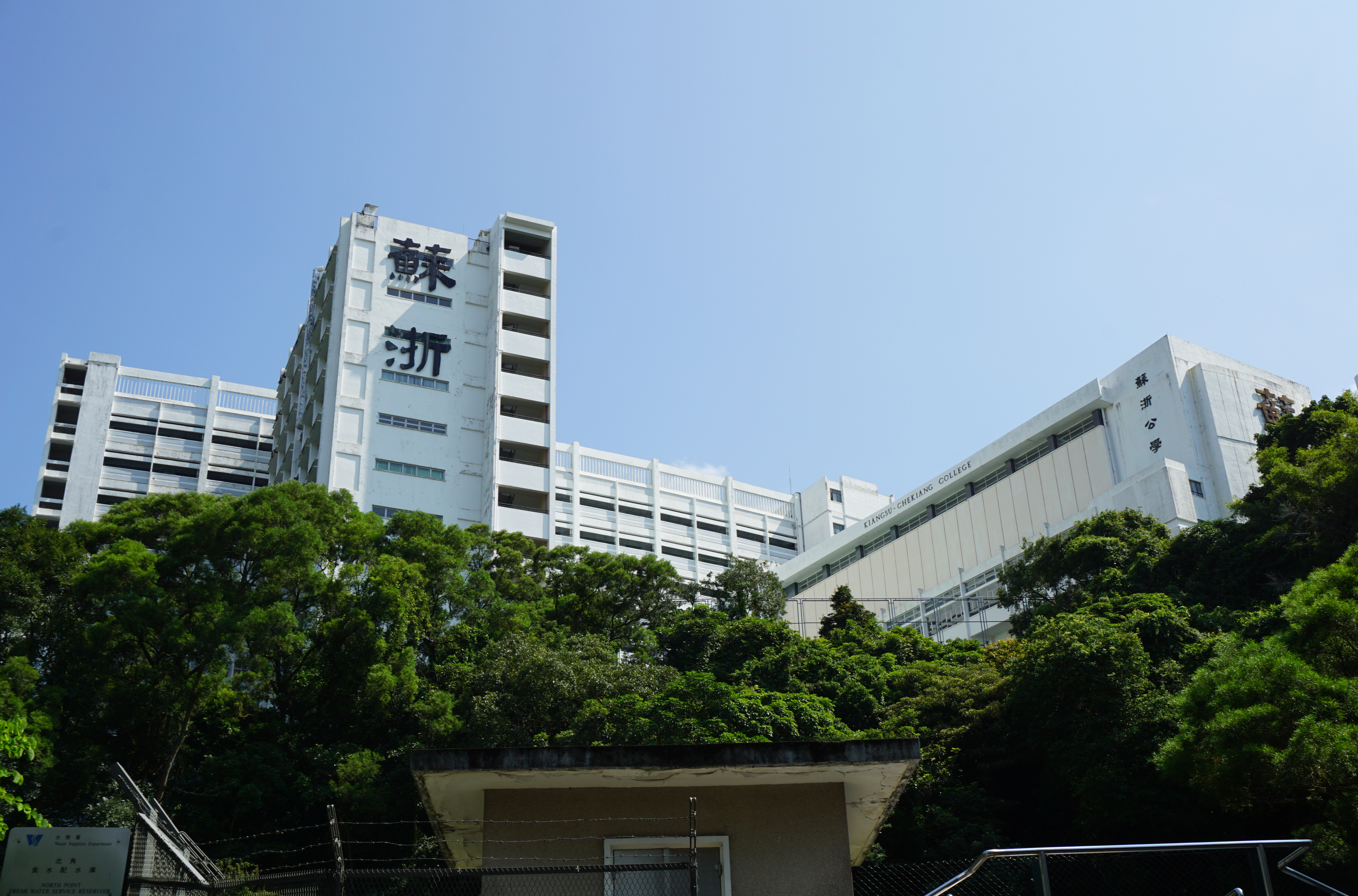 Kiangsu-Chekiang College in Braemar Hill, Hong Kong.